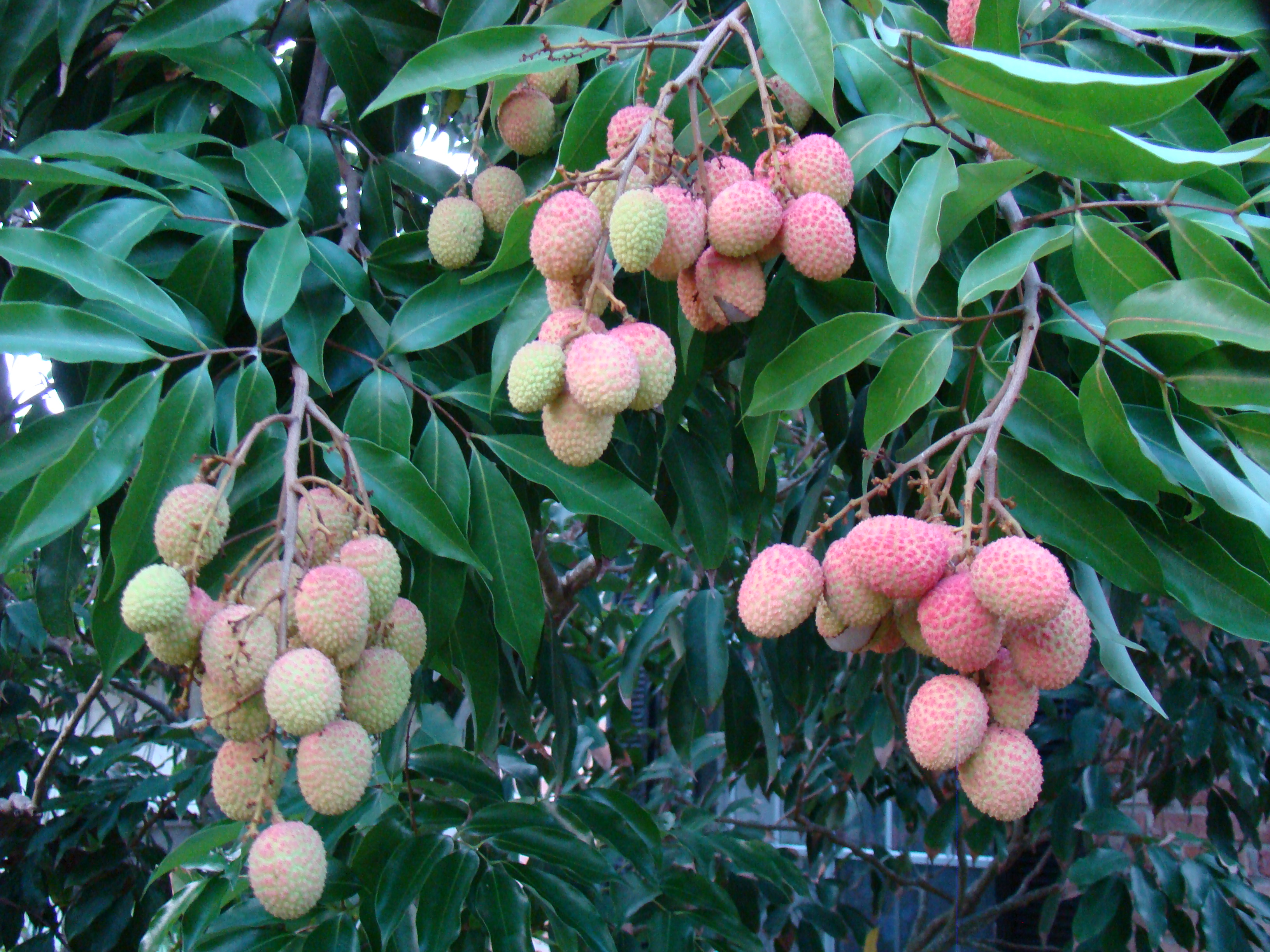 Clusters of Mauritius Lychee (Litchi chinensis / Sapindaceae) changing colors towards red in a tree in Rockledge, Florida.